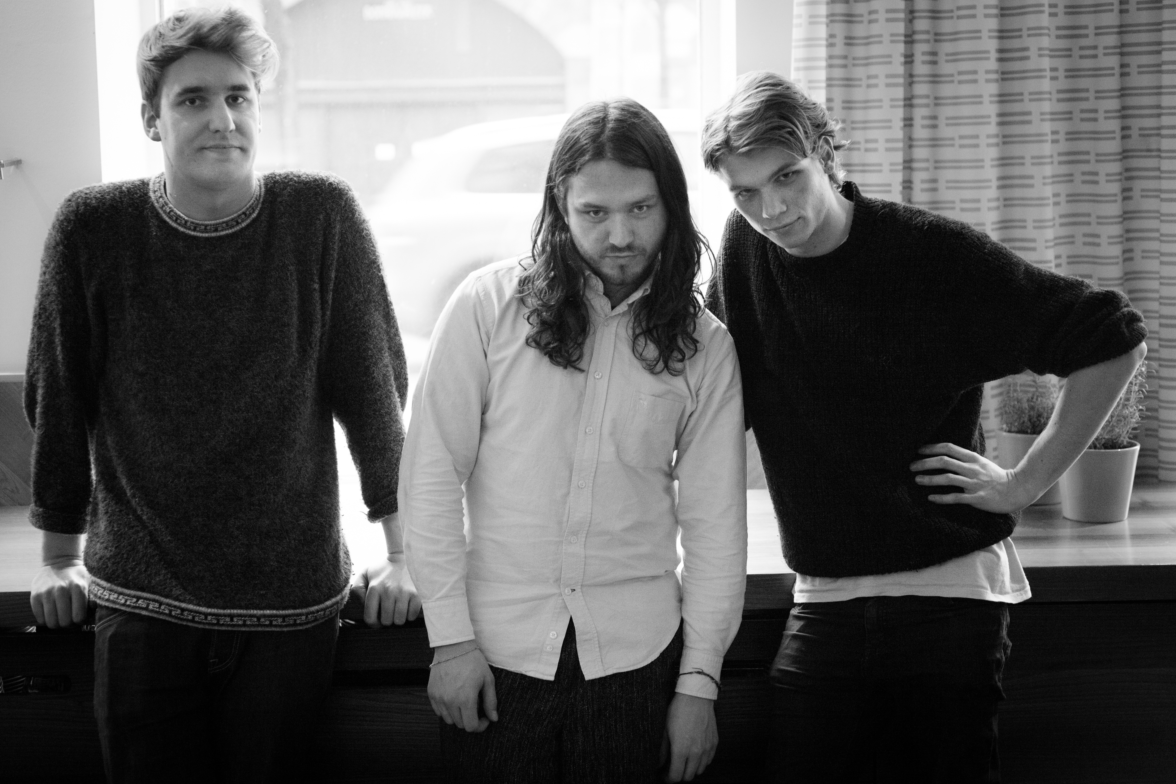 Sizarr in Vienna. January 2015. Taken by Christian Stipkovits Radio FM4 ORF